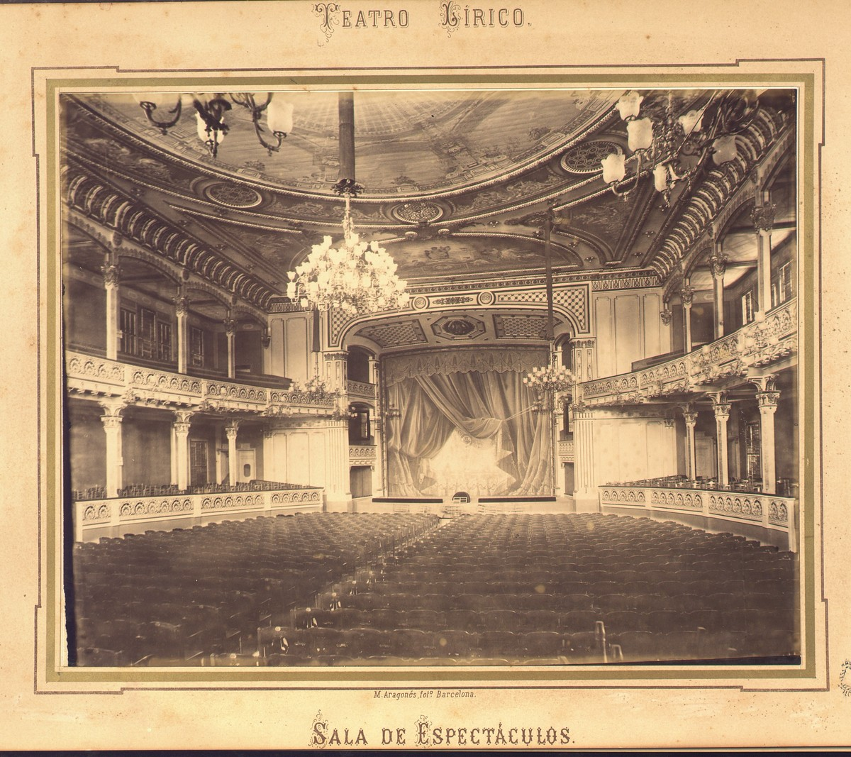 Vista del escenario desde la platea